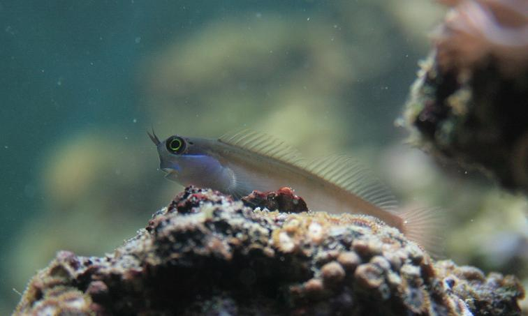 Sideview of an Escenius melarchus